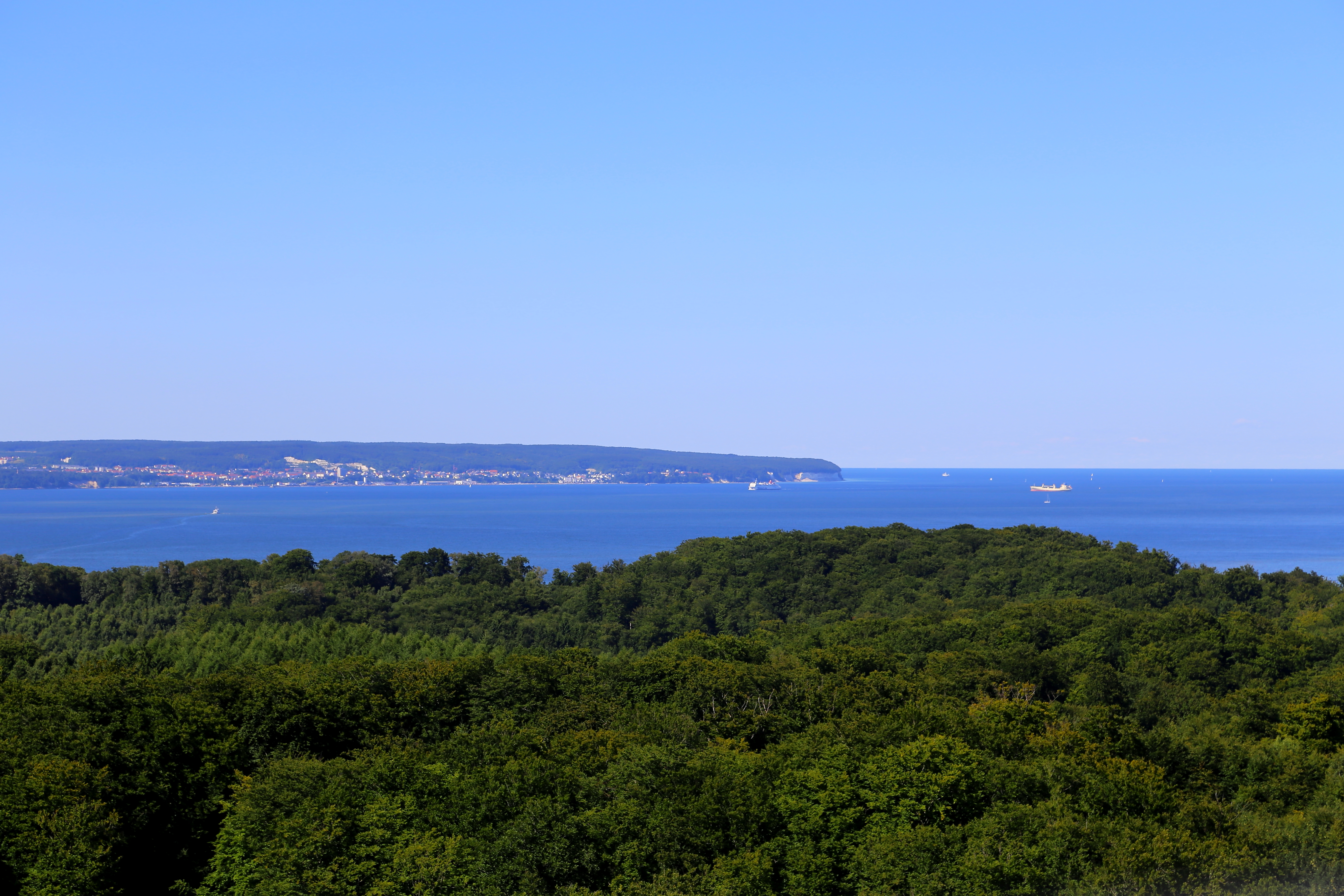 A view from the Granitz Hunting Lodge over the Prorer Wiek and the Granitz, a wooded ridge in the southeast of Rügen, Landkreis Vorpommern-Rügen, Mecklenburg-Vorpommern, Germany. The area and it's forest are a nature reserve (Naturschutzgebiet Granitz).